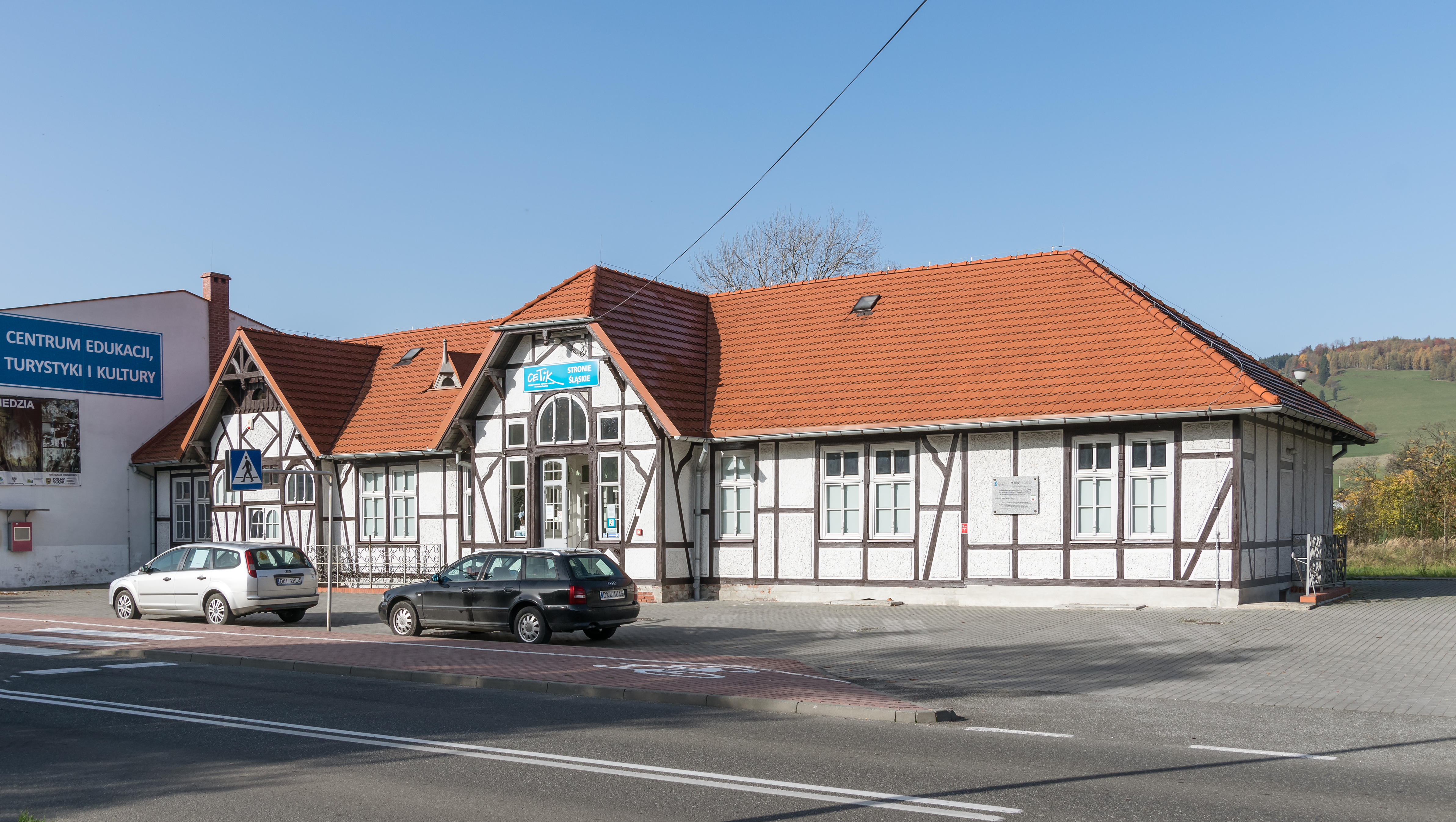 Station building in Stronie Śląskie